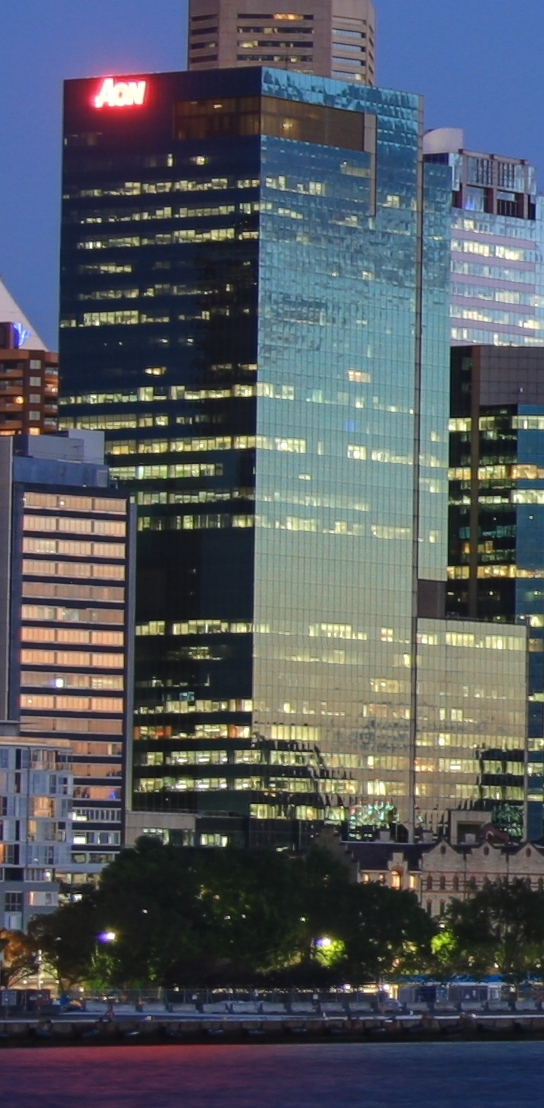 Aon Corporation's head office in Sydney, Australia